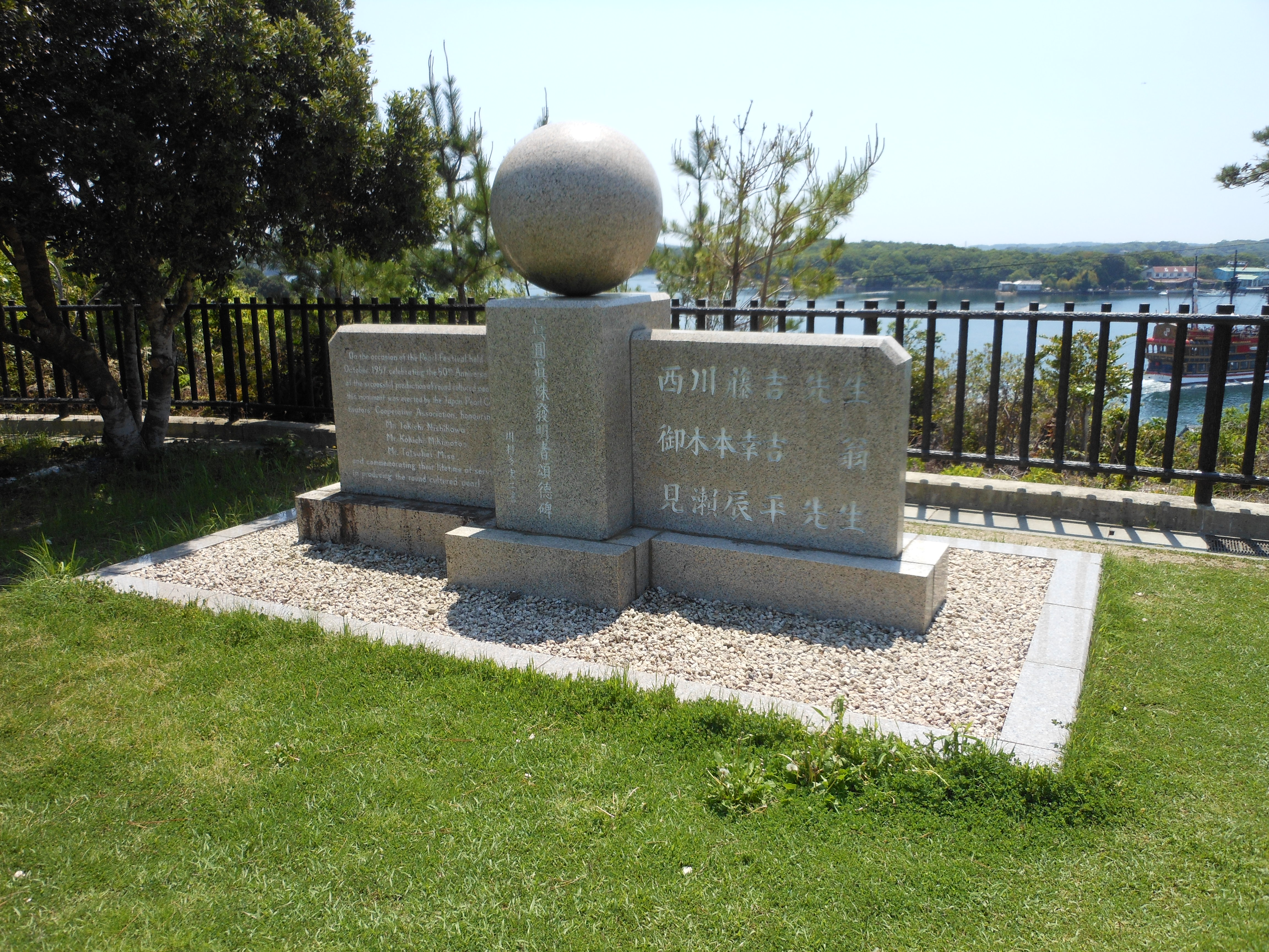 This is Pearl Inventors' Memorial in Shima, Mie, Japan.